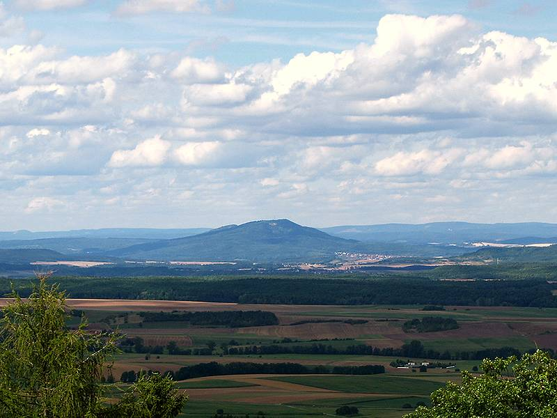 View towards the "Gleichberge" hills (Thuringia) from "Schwedenschanze" lookout tower (Lower Franconia), Germany